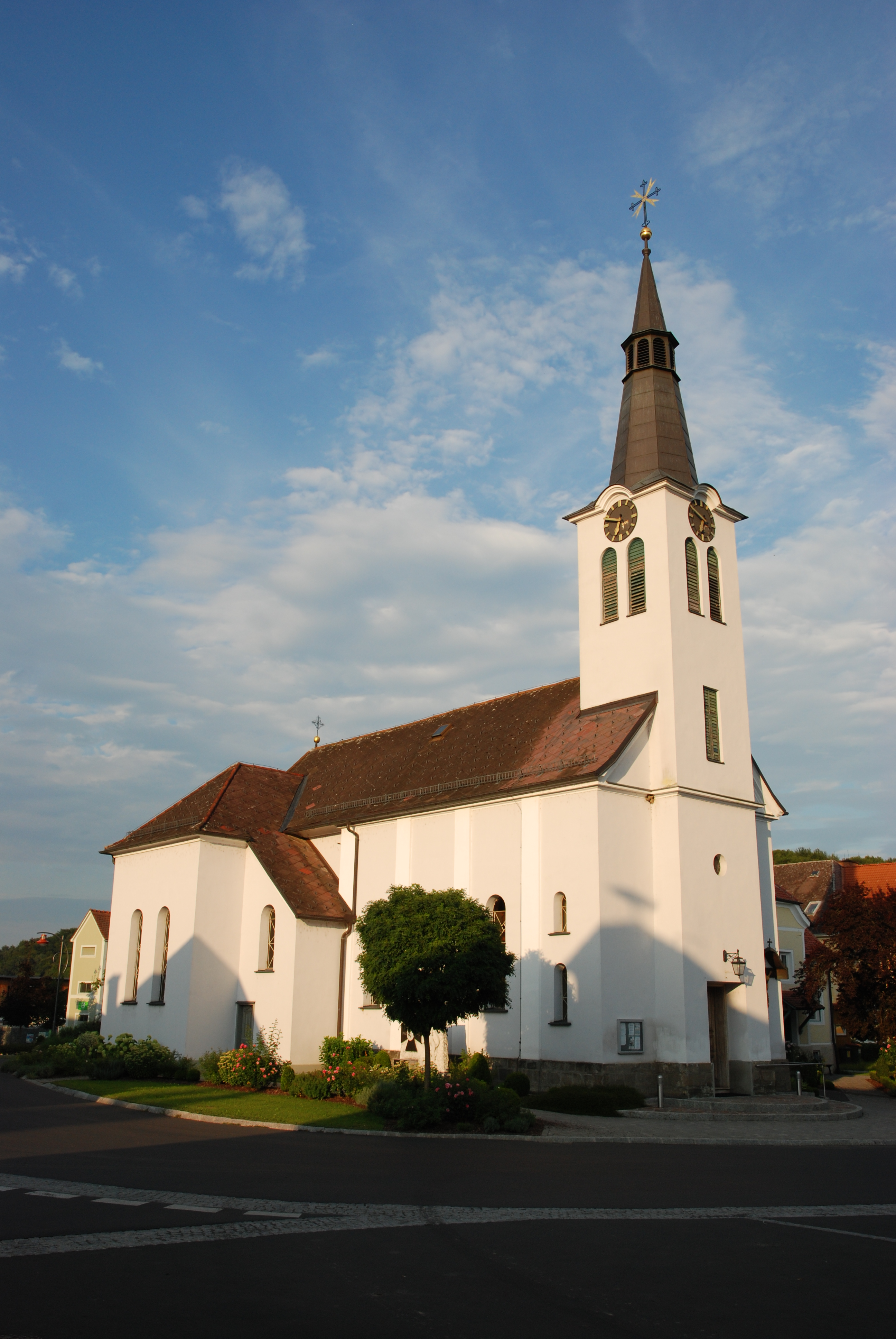 Kirche Bierbaum am Auersbach